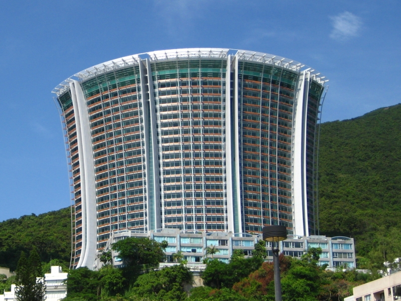 Repluse Bay 129